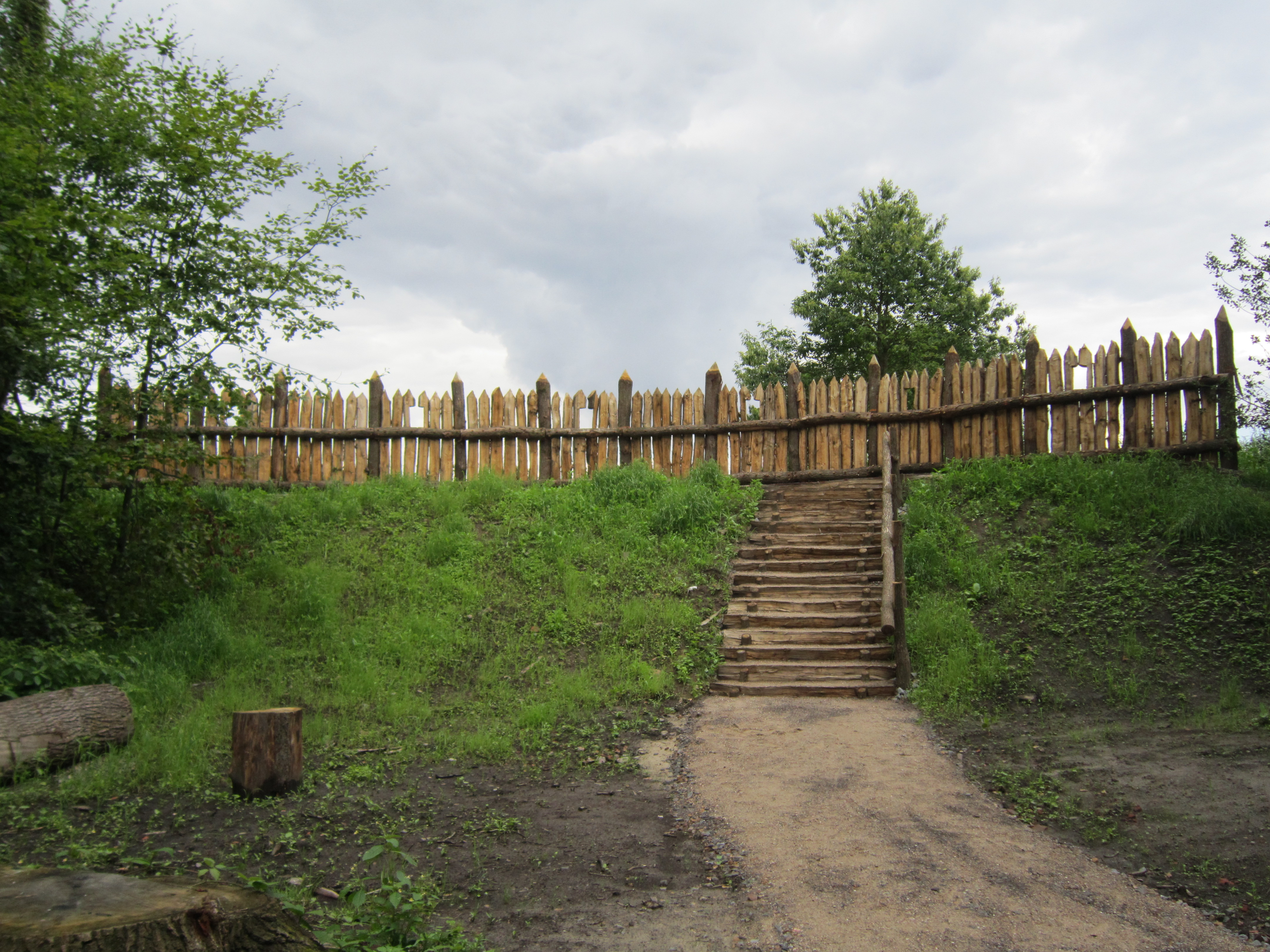 Path to the Arkeburg, an early historical hill fort in Goldenstedt, Landkreis Vechta (Lower Saxony), viewed from the inside